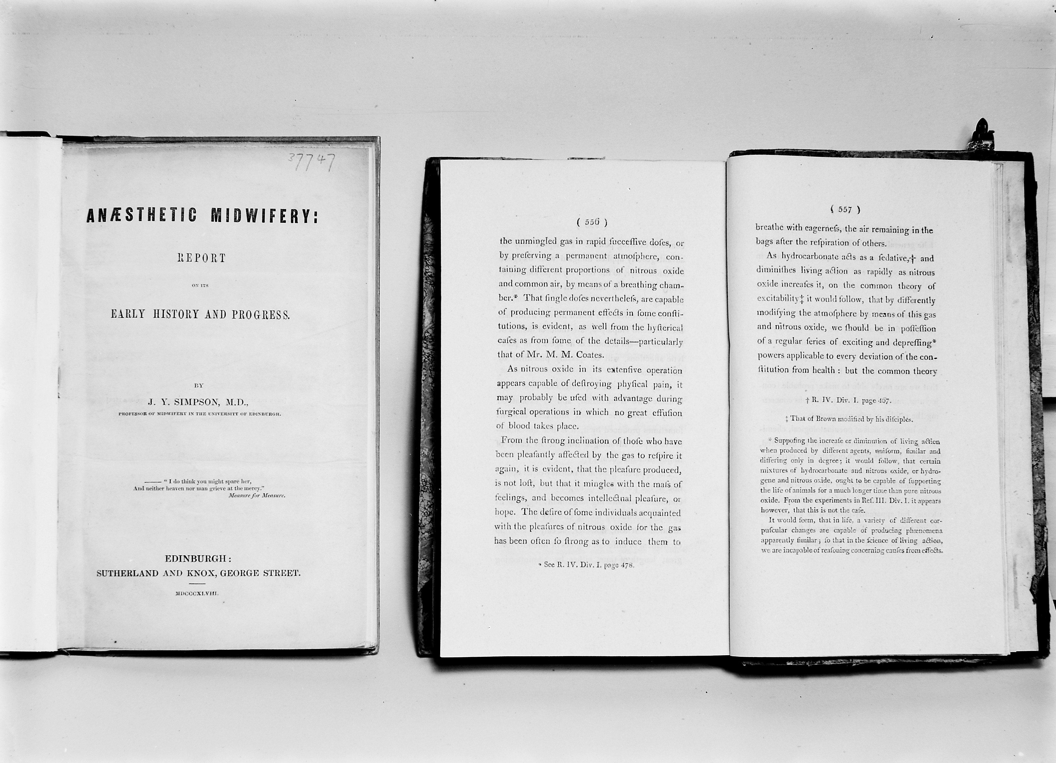 Anaesthesia Exhibition, 1946. Books exhibited: "Anaesthetic midwifery" by Sir James Young Simpson, 1848; report on its early history and progress; title page. "Researches chemical and philosophical: chiefly concerning nitrous oxide..." by Sir Humphrey Davy, 1800; pages 556 and 557 Wellcome Images Keywords: Wellcome Exhibitions; Humphry Davy; James Young Simpson; Anaesthesia